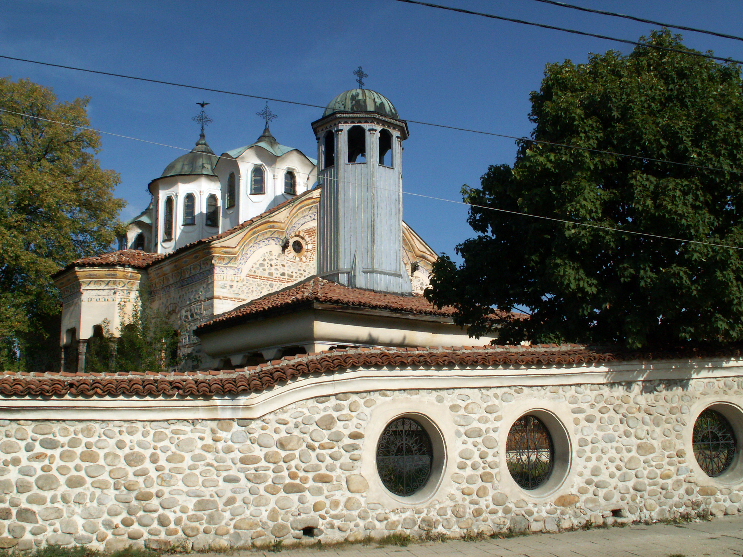 Samokov St Nicolas church